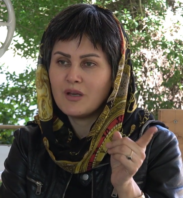 Sahraa Karimi, head of Afghan Film